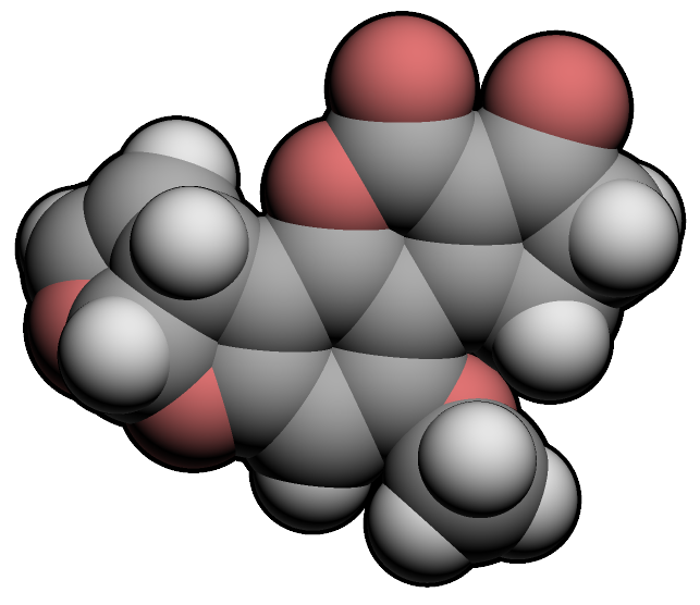 Molecular spacefill of Aflatoxin